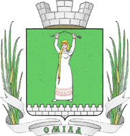 Coat of arms of Smila Ukraine